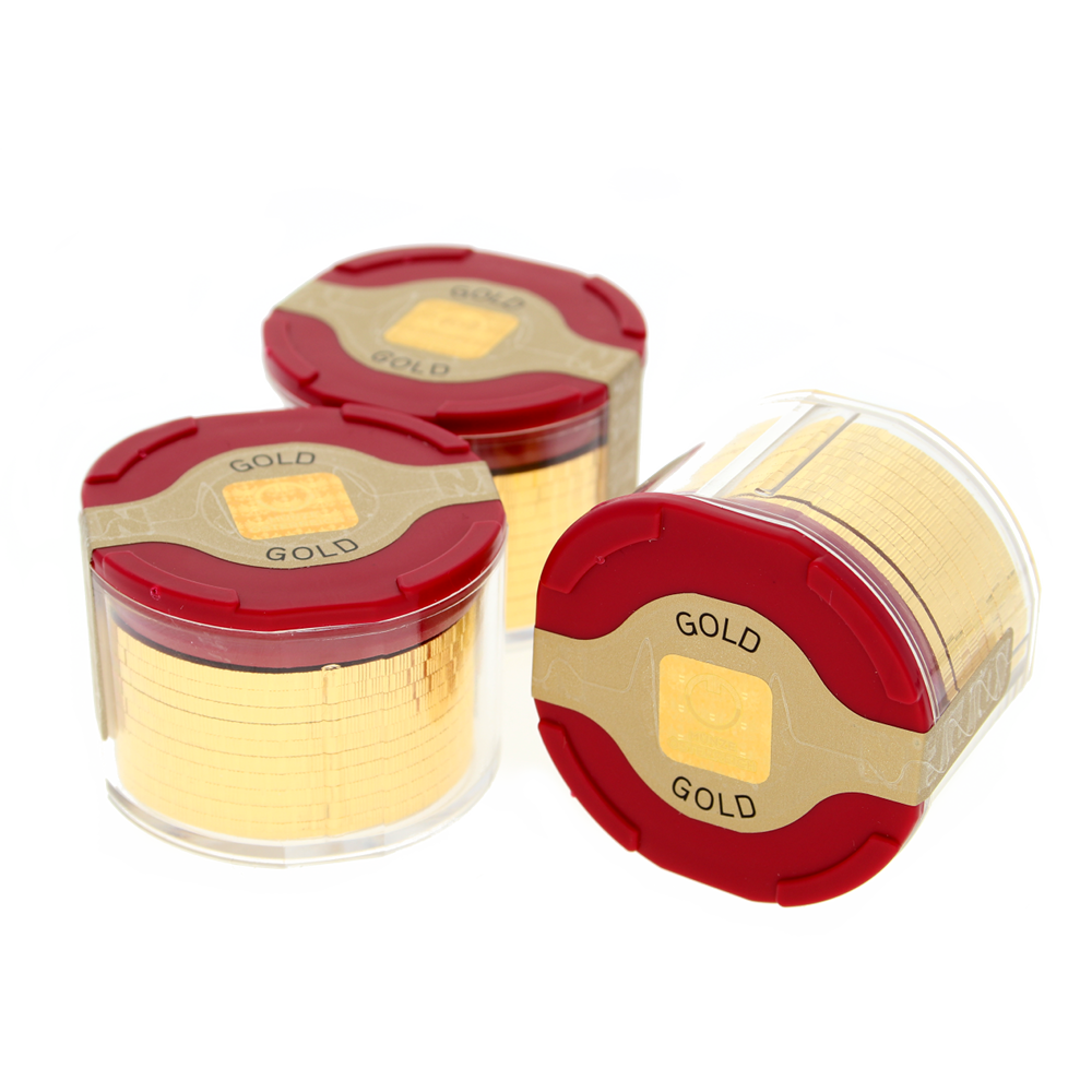 Tubes of 1 oz Vienna Philharmonics gold coin.